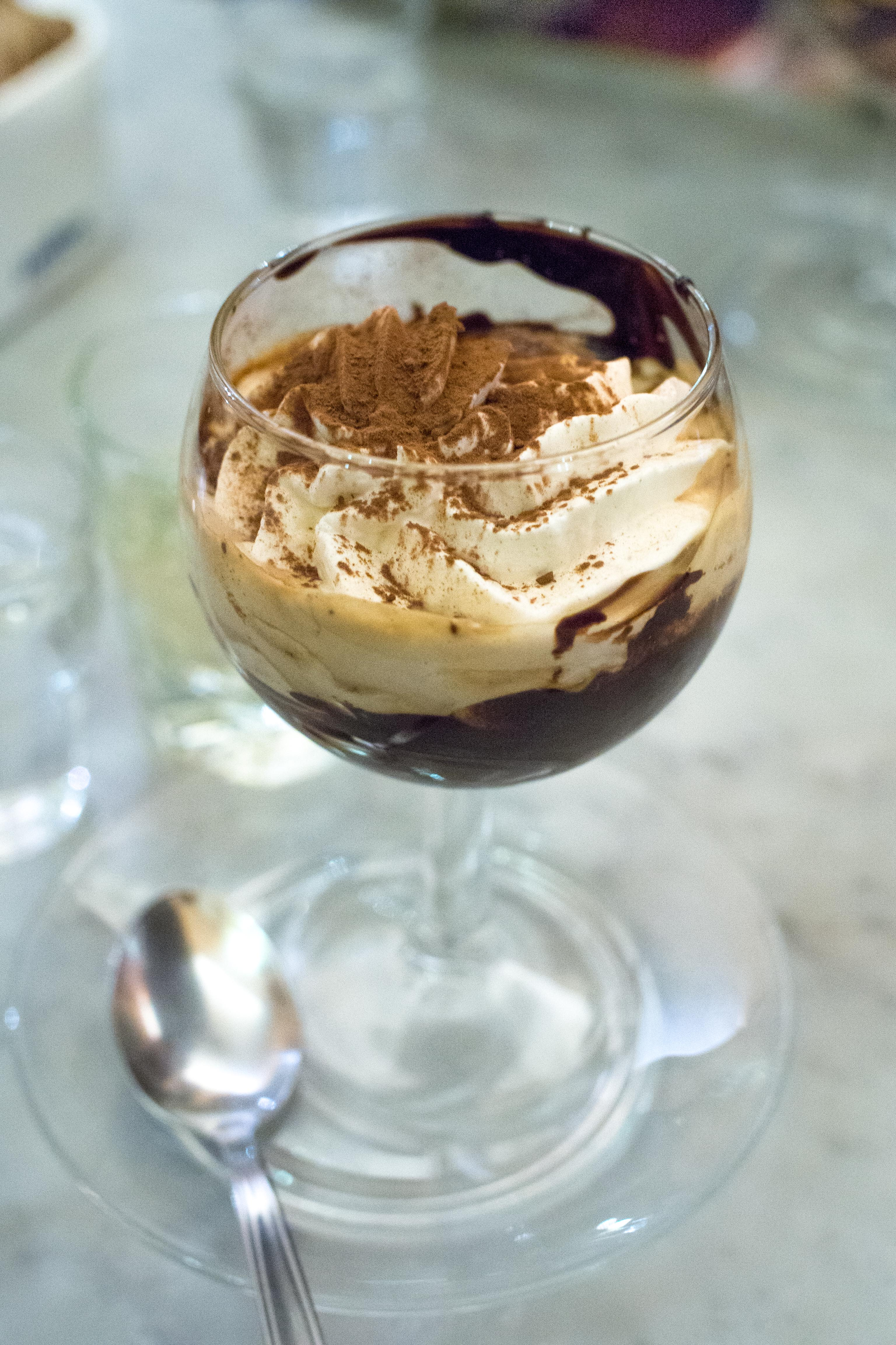 A variant of "Bicerin": a hot drink made with chocolate, espresso, and whipped cream; from Turin.